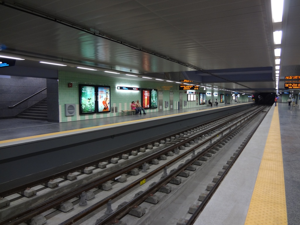 Lisbon Metro Moscavide Station